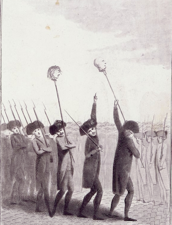 French soldiers or militia carrying the heads of Bernard-René Jordan de Launay (1740-1789) and Jacques de Flesselles (1721-1789) on pikes, who were killed on July 14, 1789, following the taking of the Bastille. Forms part of: French Political Cartoon Collection (Library of Congress).